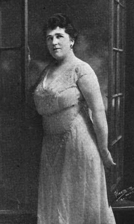 Constance Balfour, from a 1915 publication. Black-and-white photograph of a middle-aged white woman, standing, in a light-colored gown.